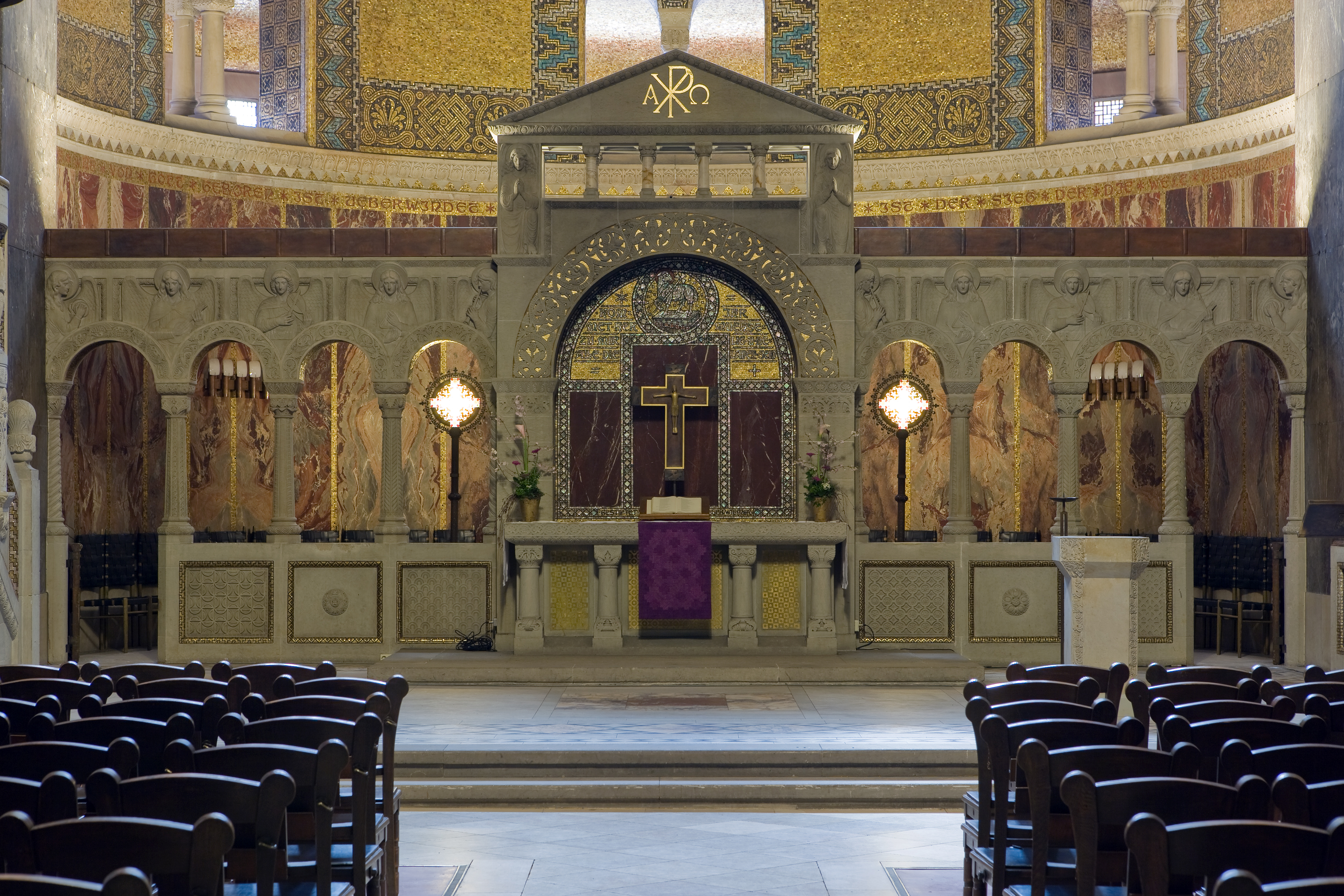 Bad Homburg: Erloeserkirche (Church of the Redeemer), altar and jube as seen from the central nave